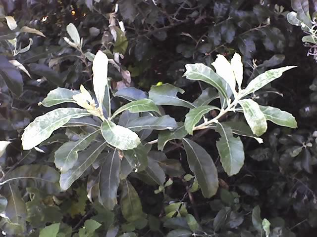 Brachylaena discolor foliage, from Amanzimtoti South Africa